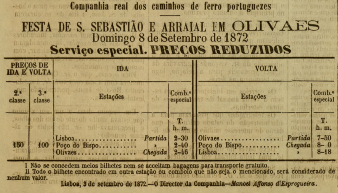 Advertisement of the Companhia Real dos Caminhos de Ferro Portugueses (Royal Company of the Portuguese Railways), for return tickets at special prices fro Lisbon to Sacavém, for the fair of Saint Sebastian. This image was published on the Diario Illustrado newspaper No. 69, of 7th September 1872, and scanned by the Biblioteca Nacional de Portugal.